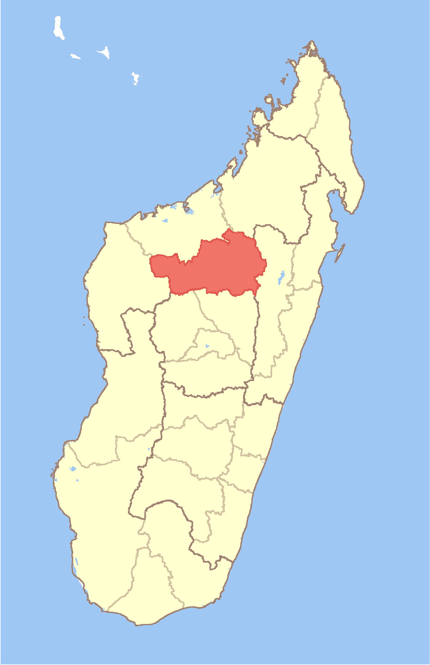 Map of Madagascar with Betsiboka region highlighted